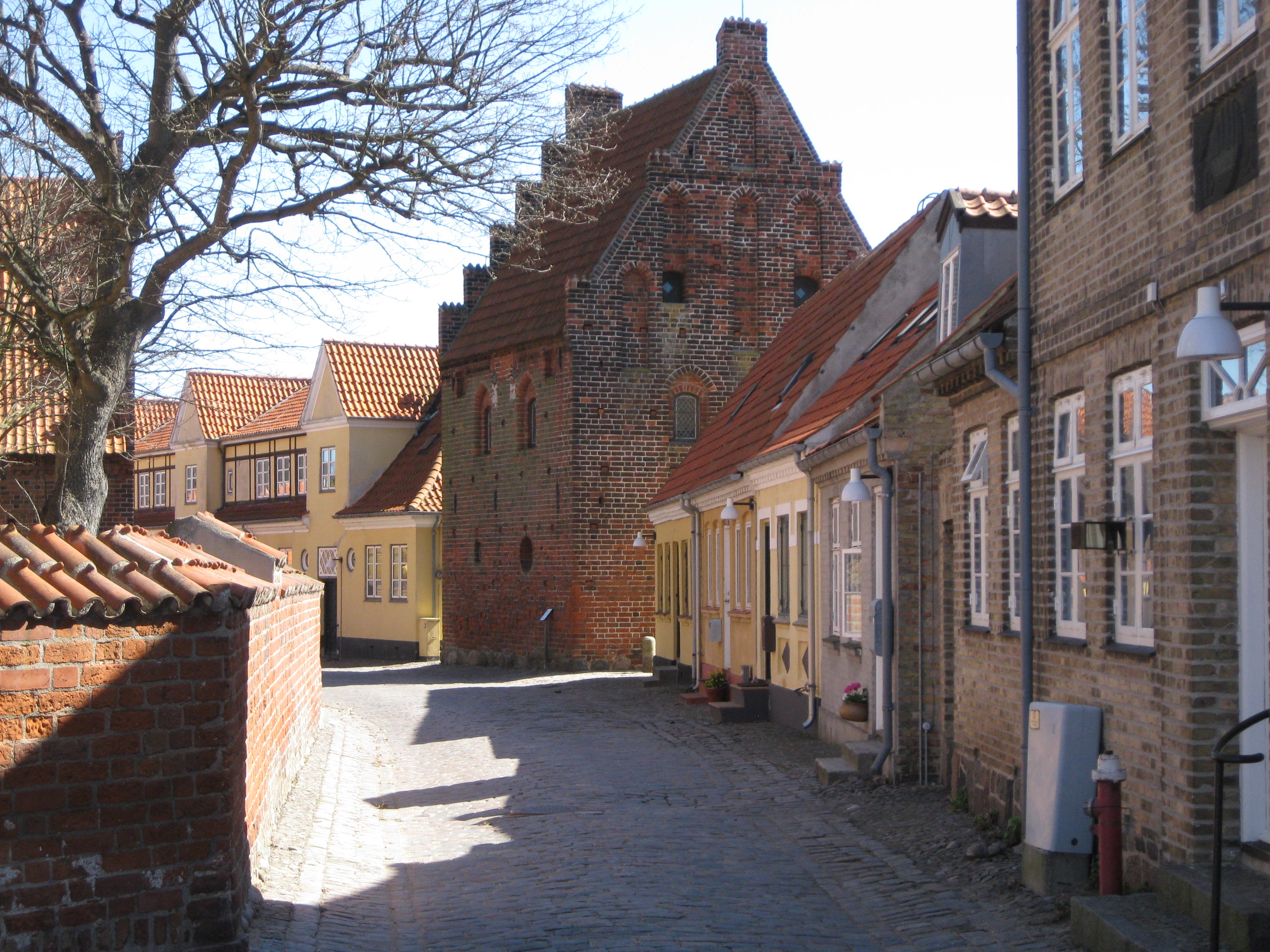 The street "Præstegade" located in the old town centre of Kalundborg. The town is located in West Zealand, Denmark.